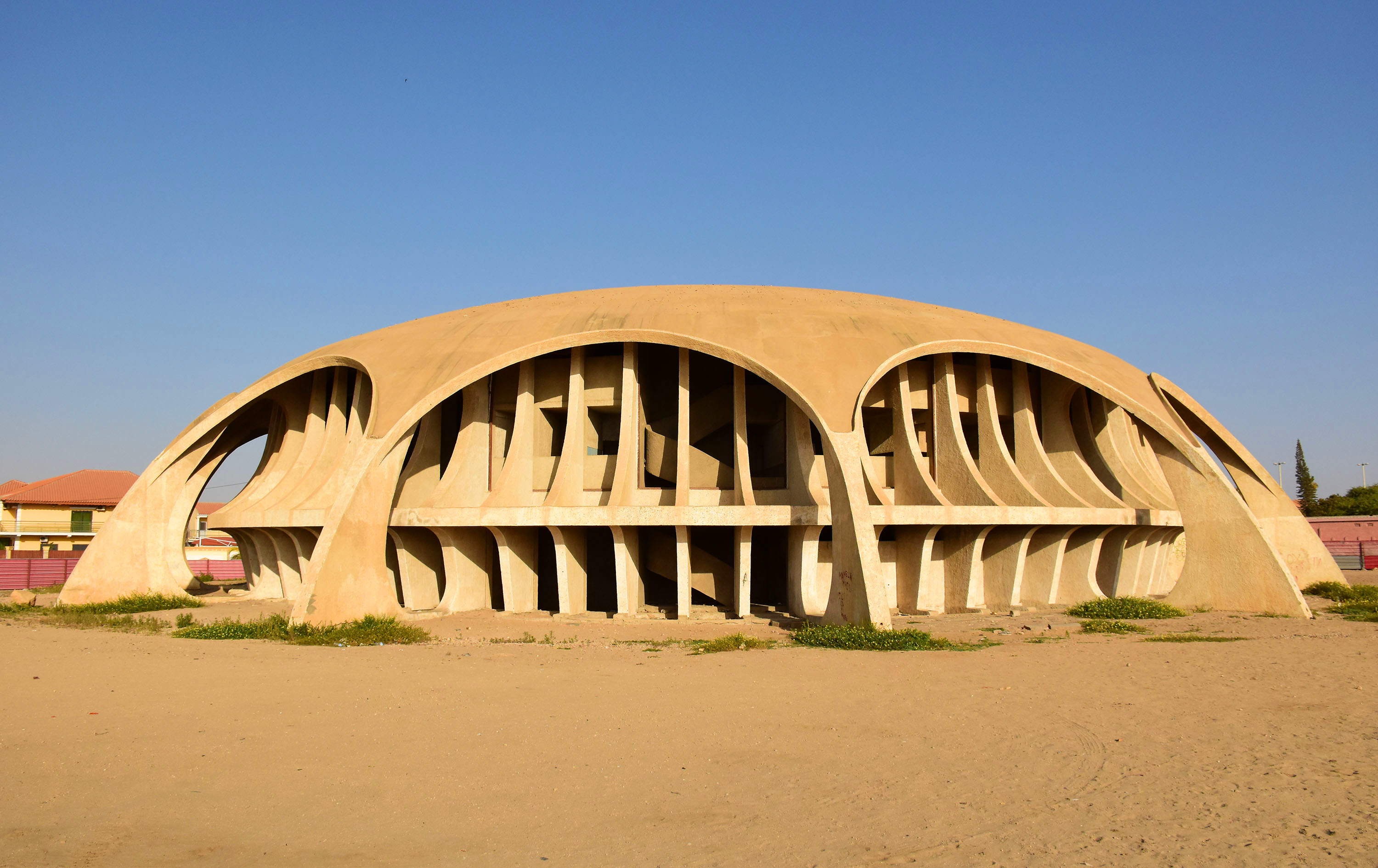 This is an image with the theme "Play" from: Angola